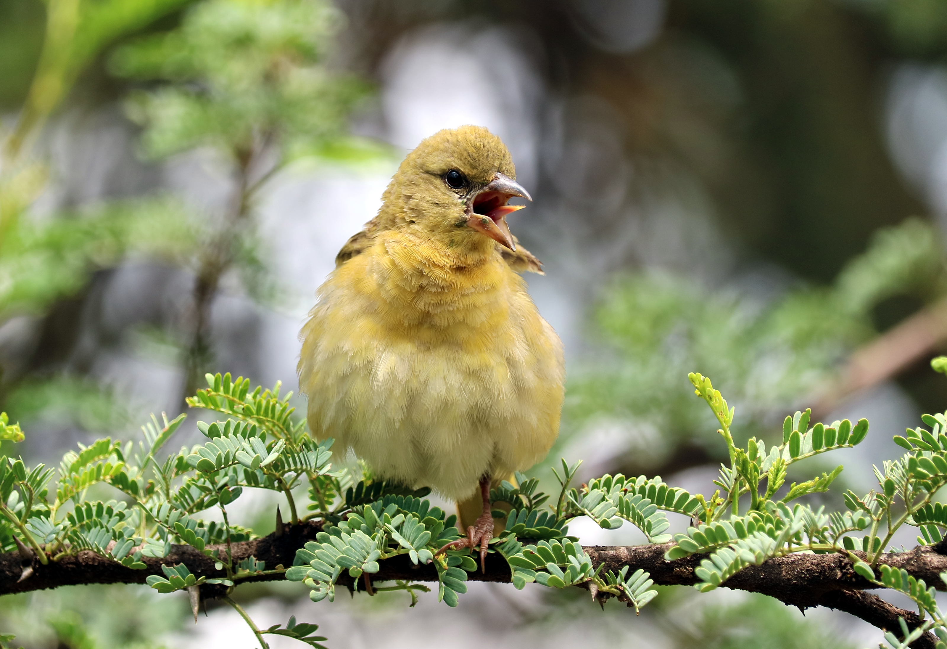 Female Southern Masked Weaver (Ploceus velatus) with tongue out and toes crossed. Photographed near Pretoria, South Africa in January 2019.